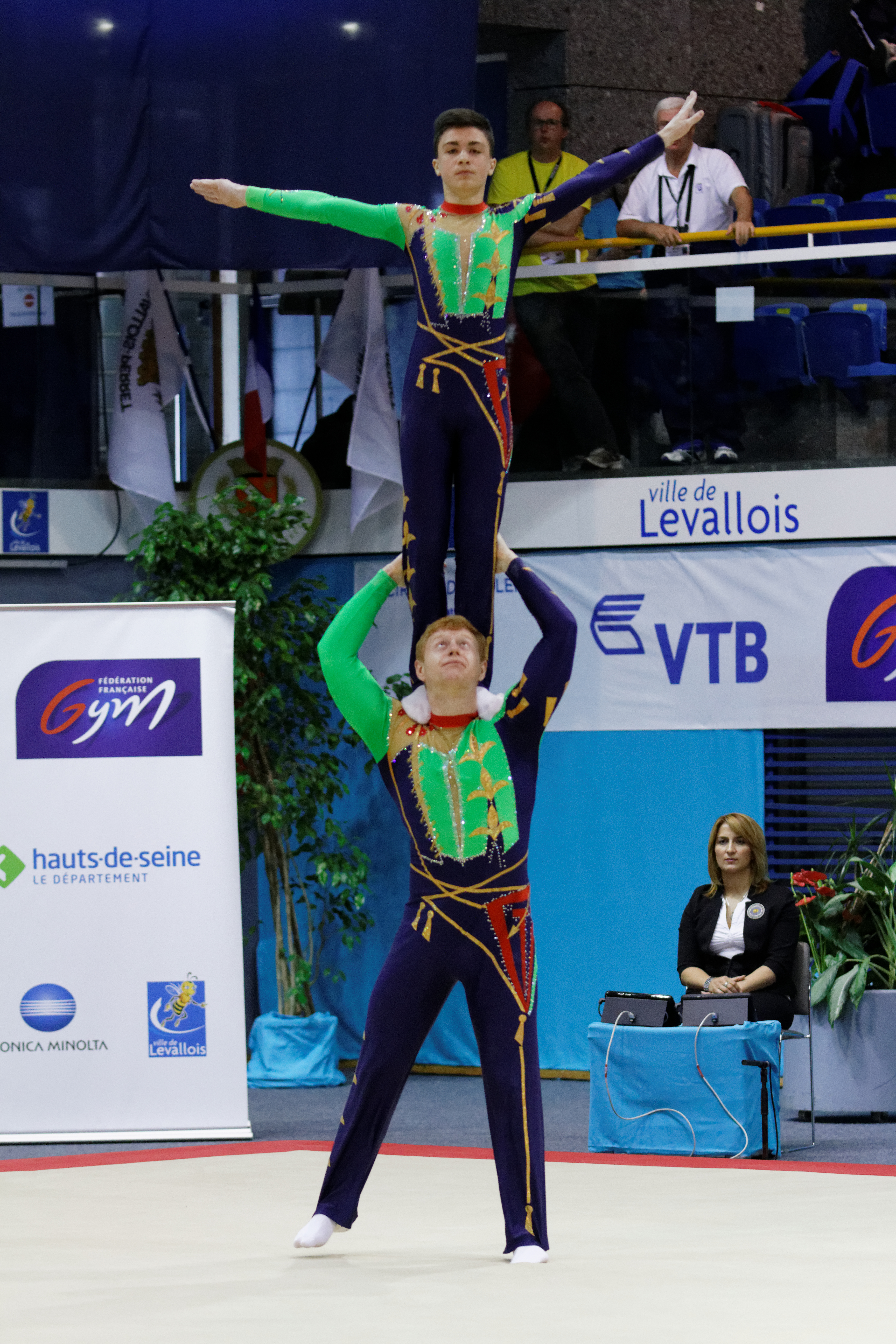 2014 Acrobatic Gymnastics World Championships, 10th-12 July, Levallois-Perret, France. Finals: men's pair. Ukraine.